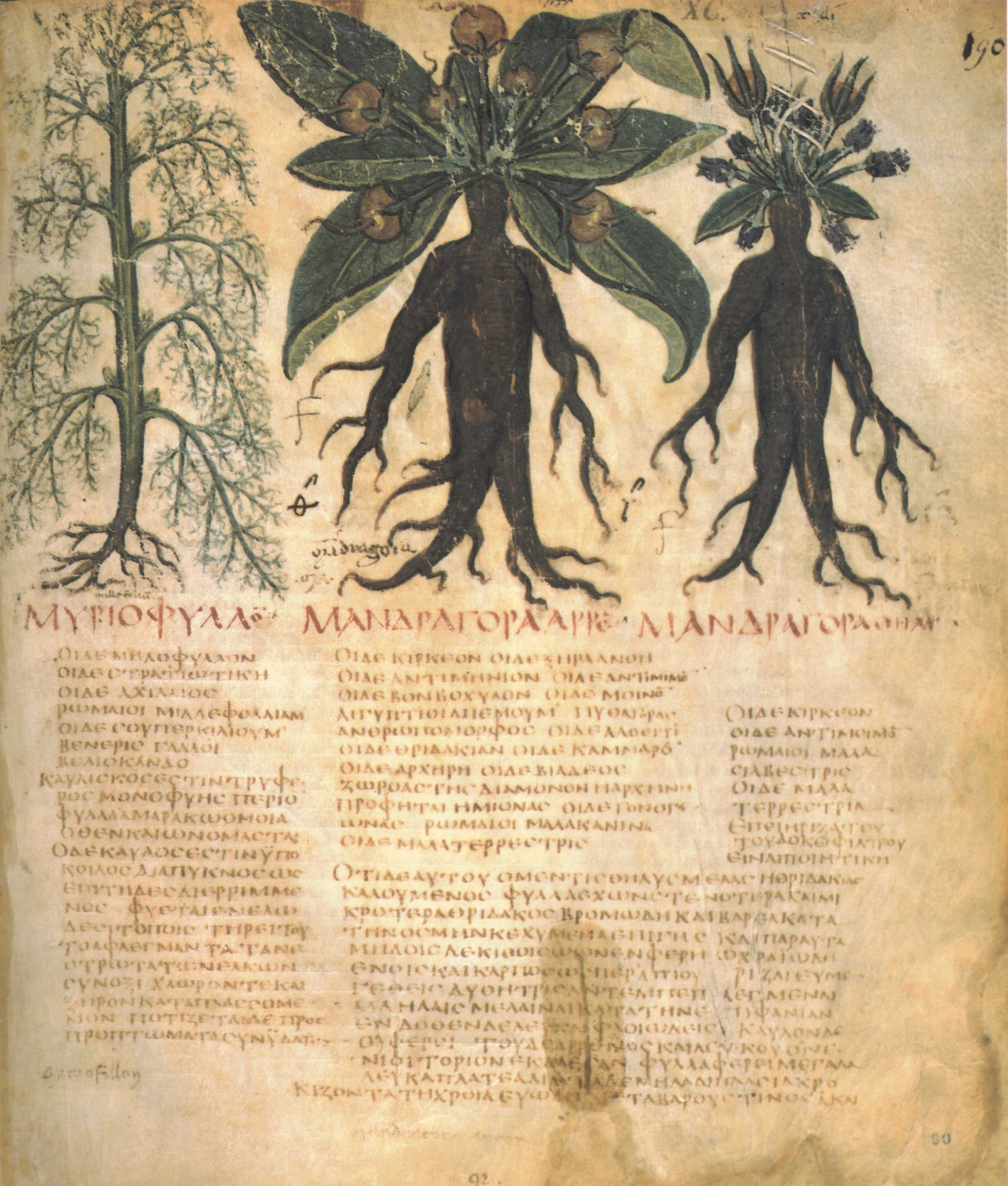 Mandrake (gr. ΜΑΝΔΡΑΓΟΡΑ, in capital letters). Folio 90 from the Naples Dioscurides, a 7th century manuscript of Dioscurides De Materia Medica (Naples, Biblioteca Nazionale, Cod. Gr. 1).